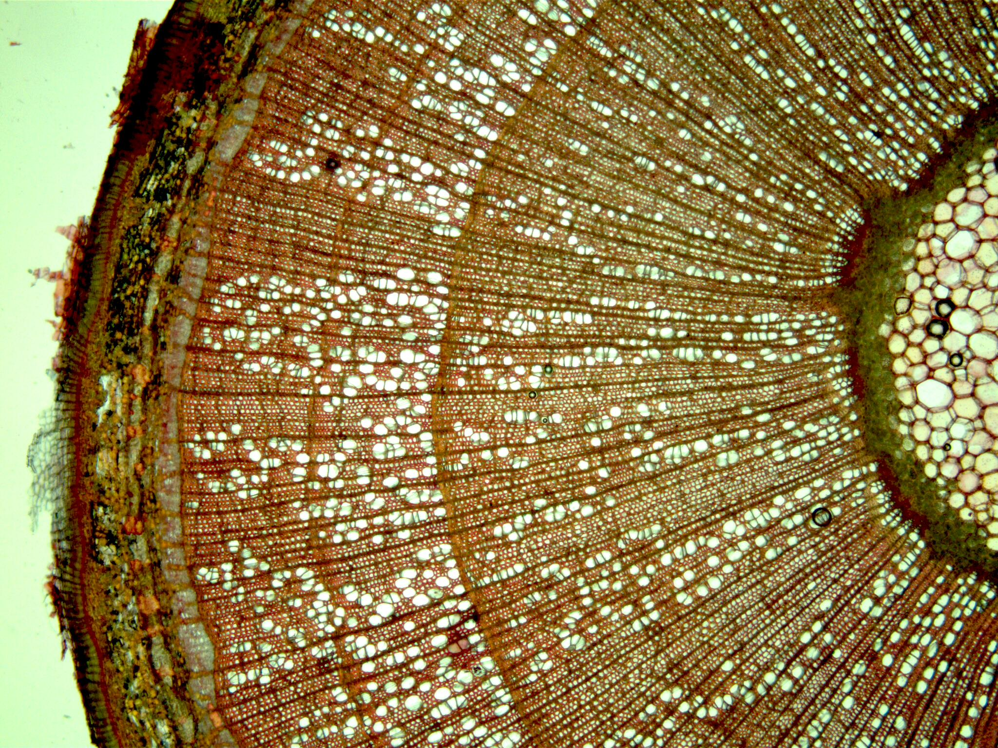 Corylus avellana. bole cross section